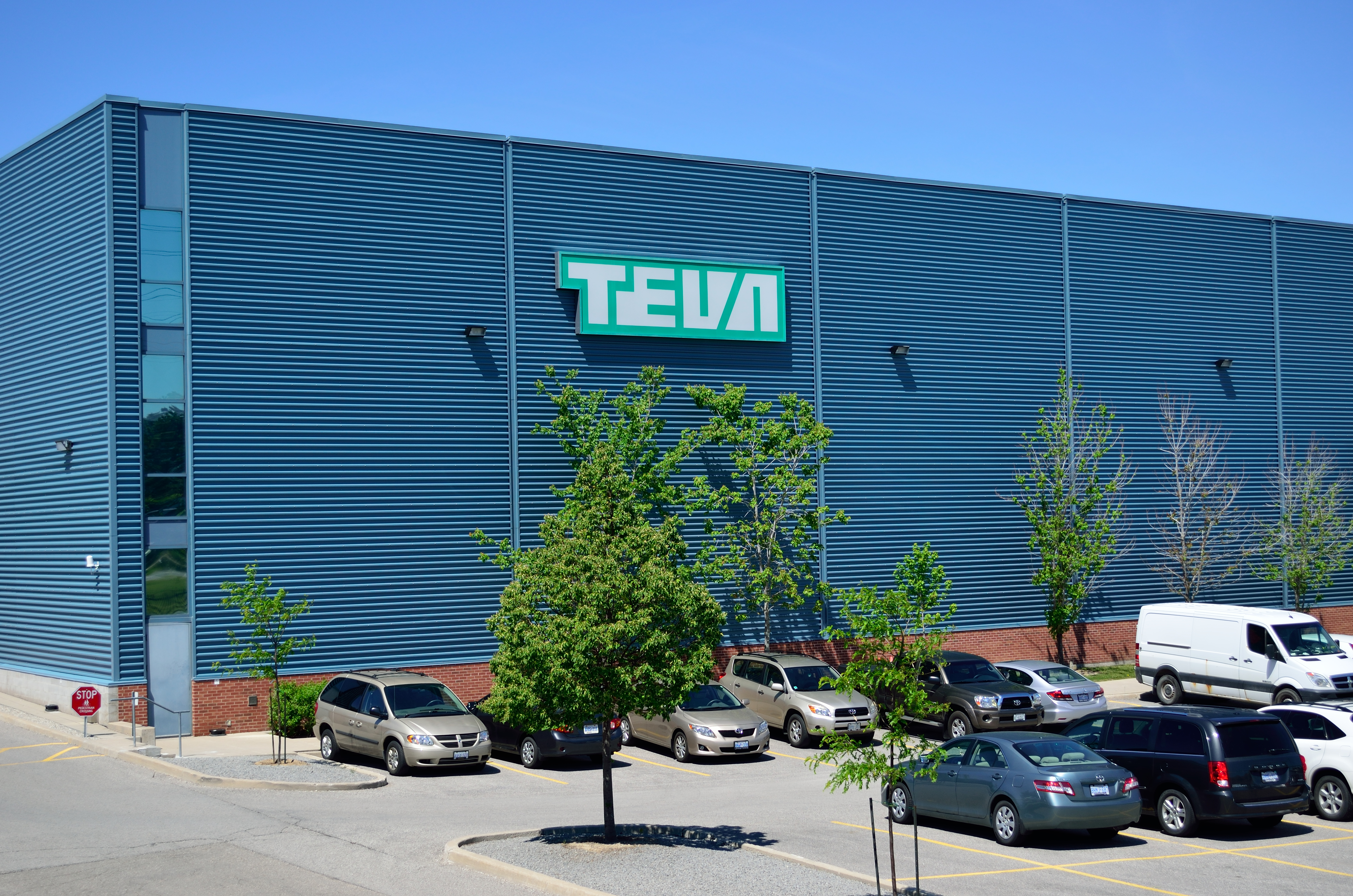 Teva Canada Centre of Excellence for Penicillin Products - Address: 575 Hood Road, markham, Ontario